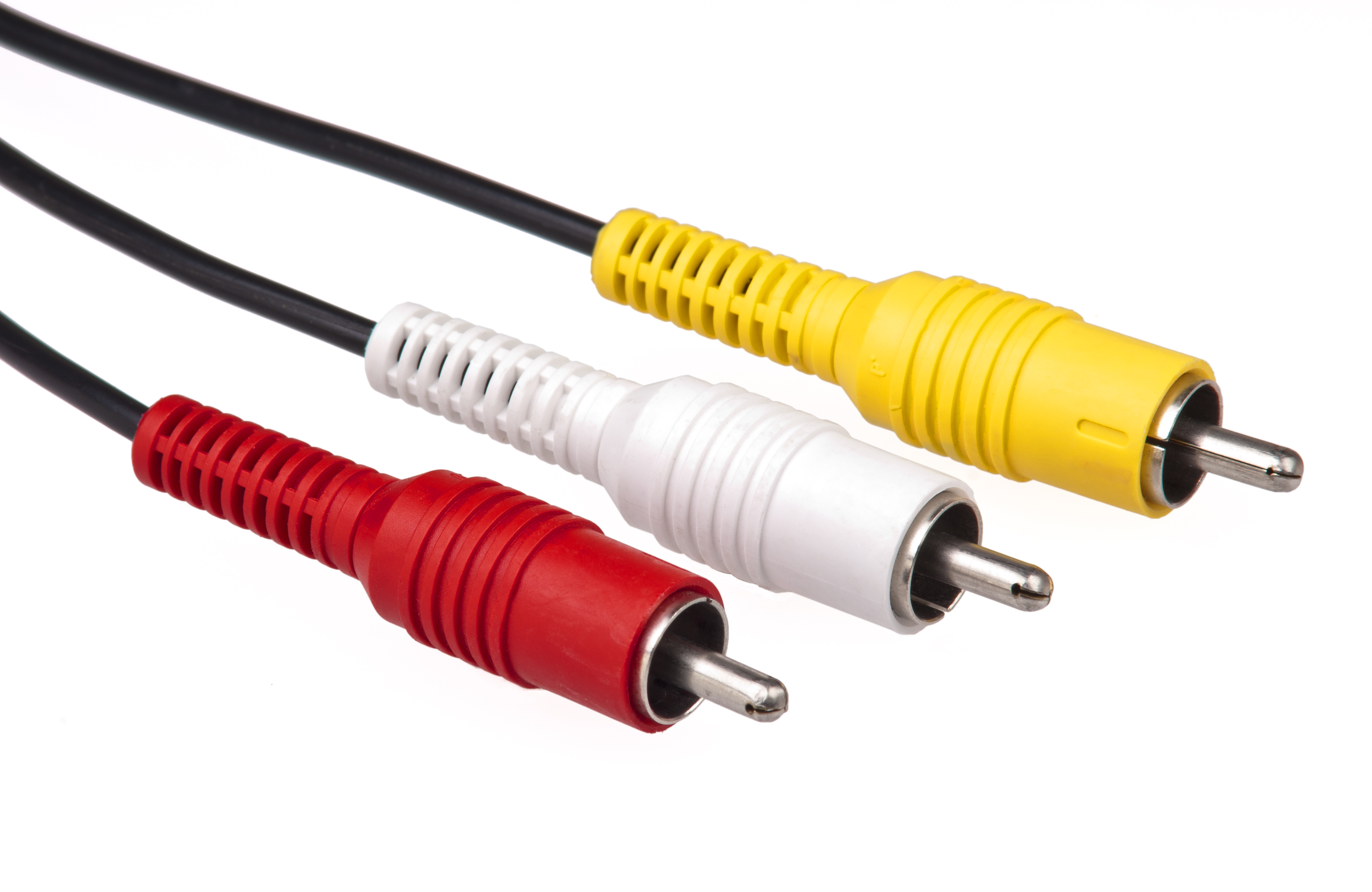 Standard composite cables for hooking up video equipment. Yellow is video, red and white are for stereo sound.